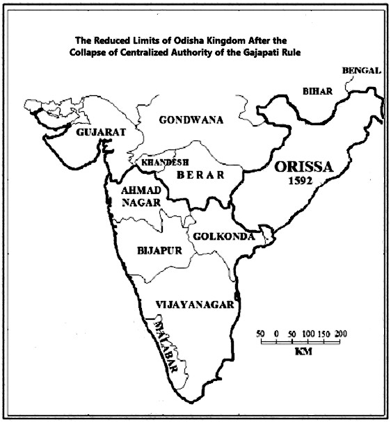 Reduced limits of the traditional boundaries of the kingdom of Odisha after the fall of the centralized authority of the Gajapatis and before the Mughals took it over in 1592